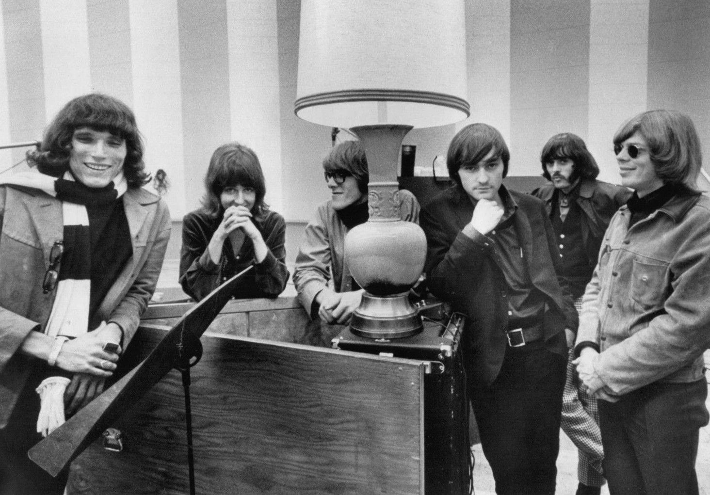 Photo of Jefferso Airplane. From left-Jorma Kaukonen, Grace Slick, Paul Kantner, Marty Balin, Spencer Dryden and Jack Casady.